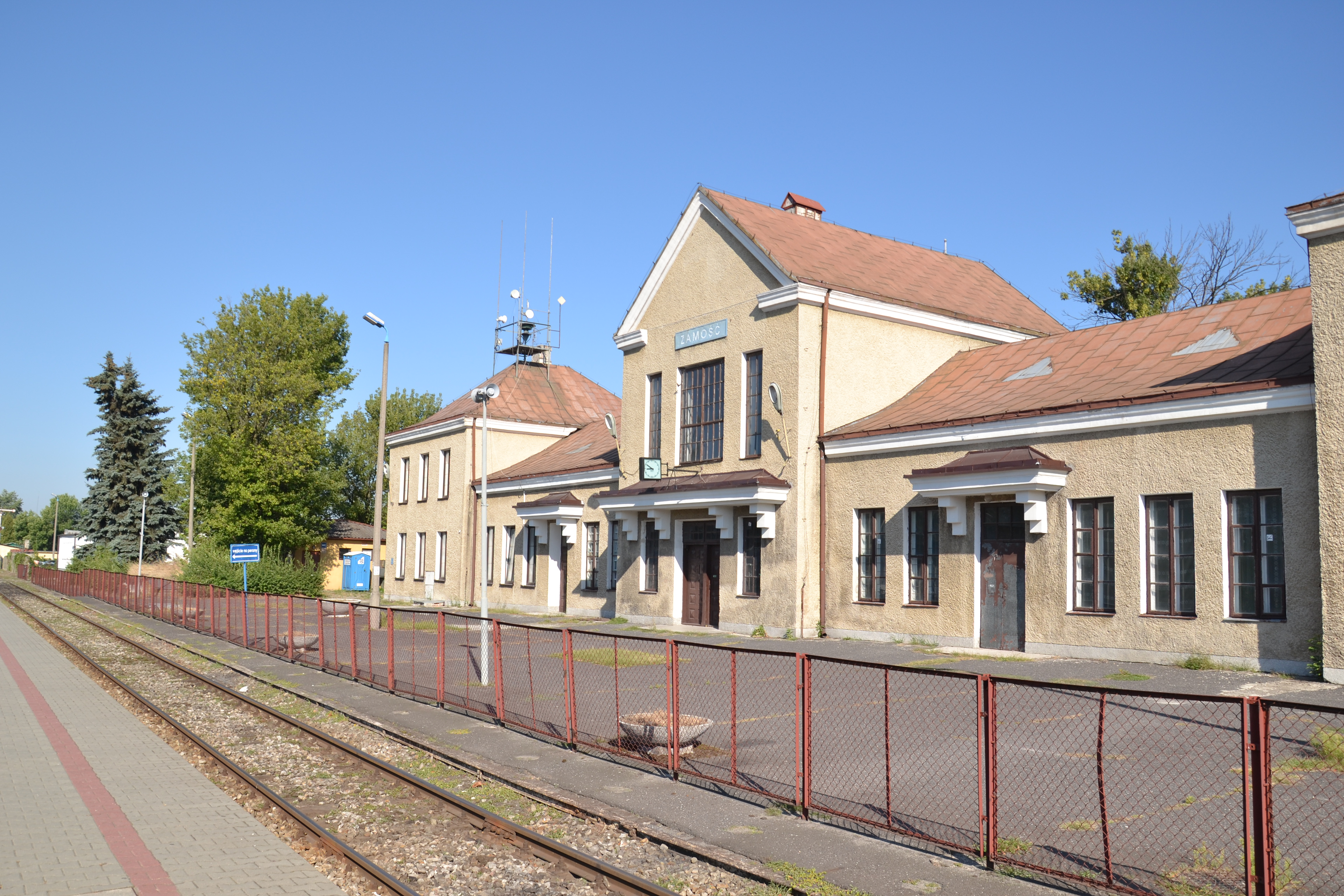 Widok budynku dworca w Zamościu od strony peronów This photo was taken during Railway Wikiexpedition 2015 set up by Wikimedia Polska Association in cooperation with Fundacja Grupy PKP. You can see all photographs in category Wikiekspedycja kolejowa 2015.